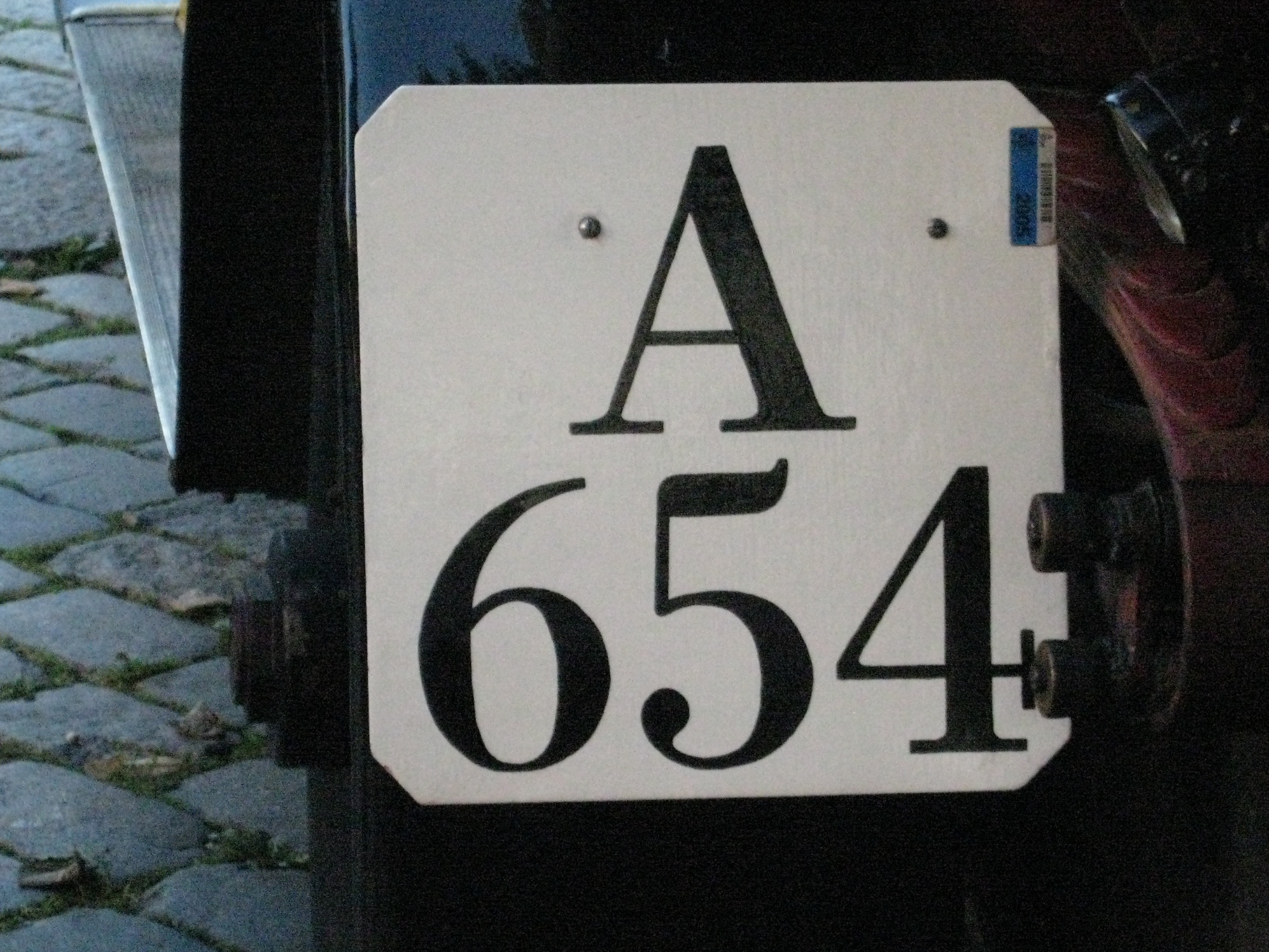 Automobile license plate Norway 1913-1928. Kristiania (today Oslo). Reproduction